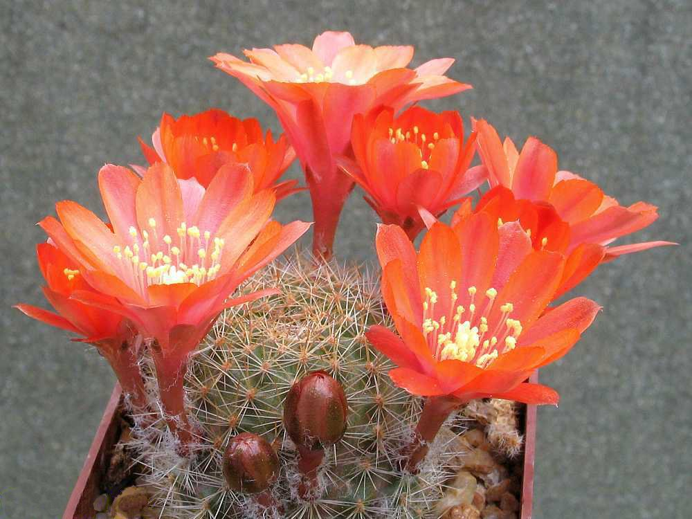 Rebutia deminuta (Rebutia buiningiana f. SE61B) - cultivated plant (seed marked SE61B) from own collection.